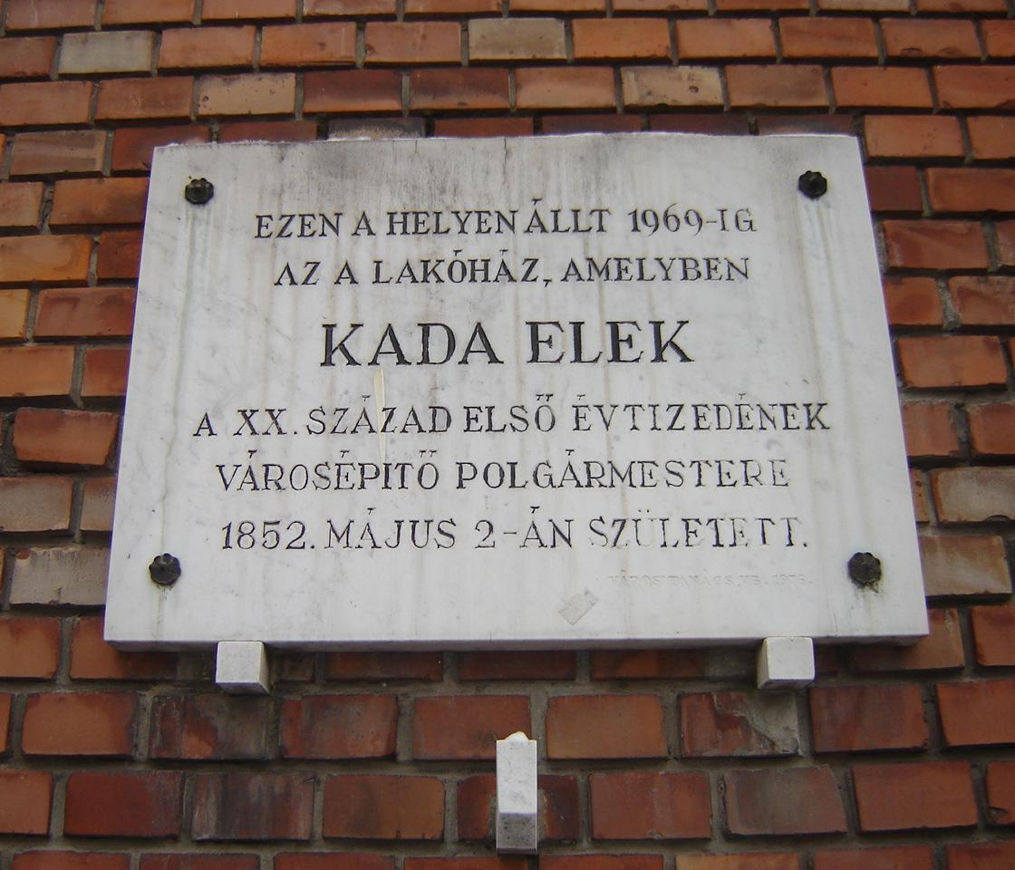 Commemorative plaque of Elek Kada in Kecskemét